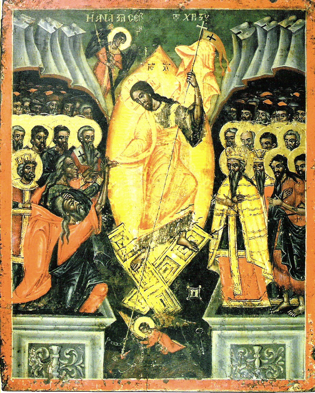 Resrrection of Christ Icon from Zhelin Chiliodendro 19 Century